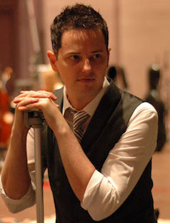 Graves in 2010